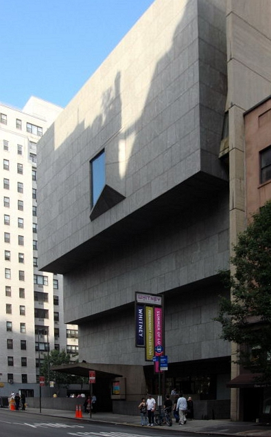 The Breuer Building (built 1966), located at the corner of Madison Avenue and 75th Street in the Upper East Side, NYC. The building was the home of the Whitney Museum of American Art from 1966 to 2014. Designed in a strong Brutalist Modernism style by Bauhaus-trained architect Marcel Breuer.